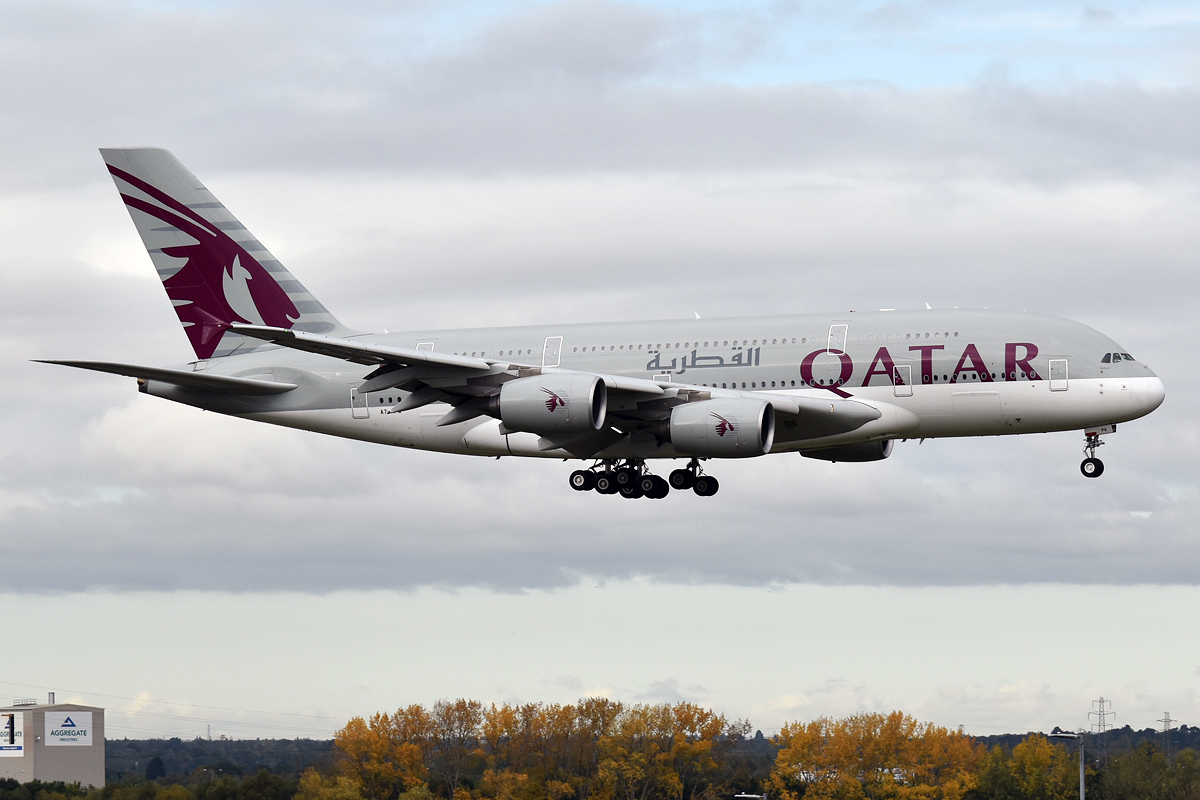 Qatar Airways, A7-APA, Airbus A380-861